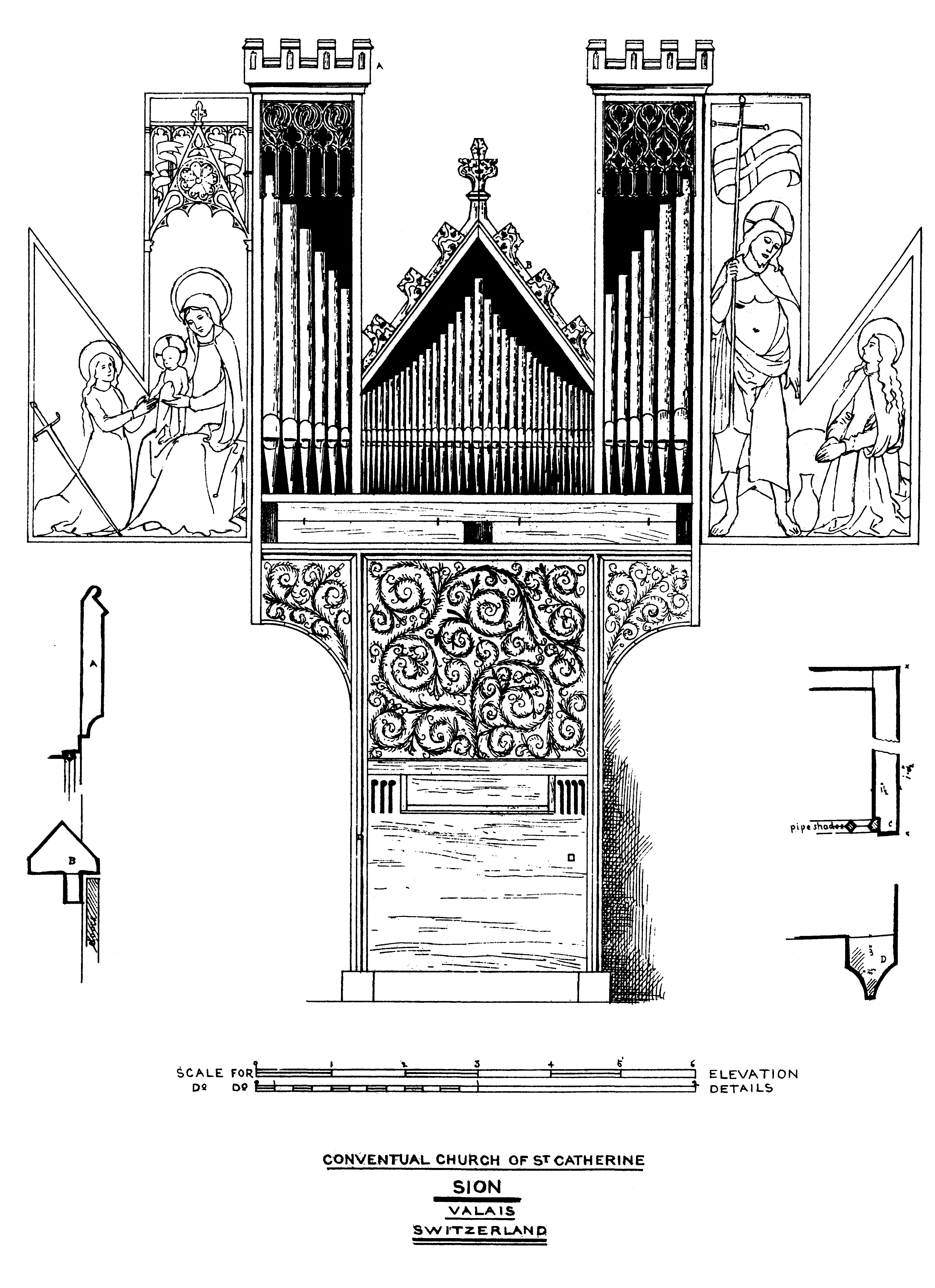 A drawing by Temple Lushington Moore of the organ facade in the Basilique de Valère in Sion, Switzerland.